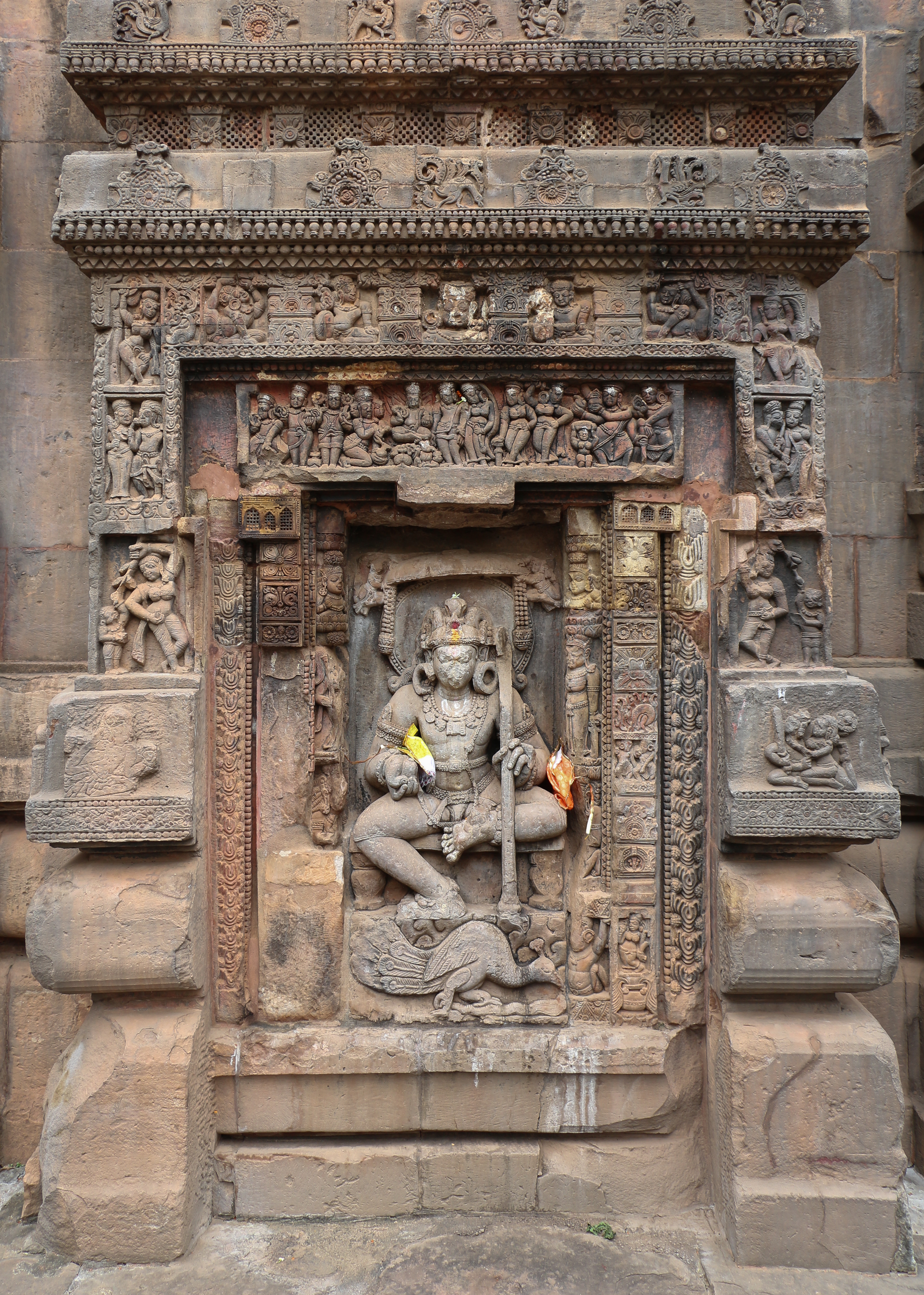 Sculpture of Kartikeya (Murugan) on Parasuramesvara Temple, Bhubaneswar, India